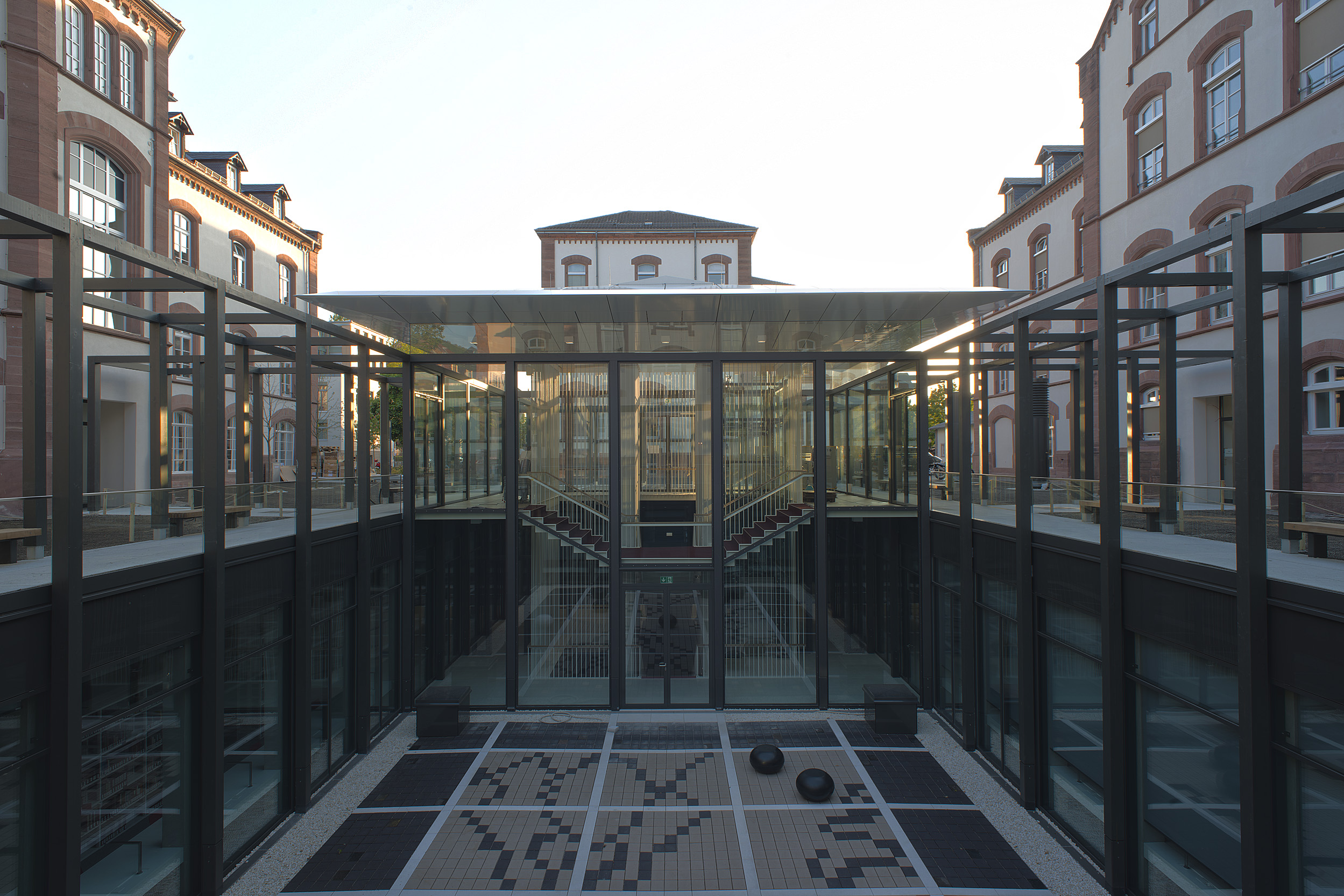 Library of the Centre for Asian and Transcultural Studies, Heidelberg University